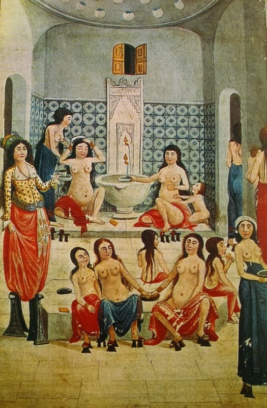 Women in Turkish bath.